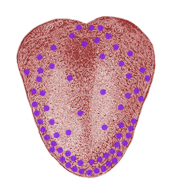 Human tongue, taste buds for salty are marked